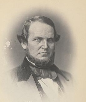 William H. Kelsey, Congressman from New York